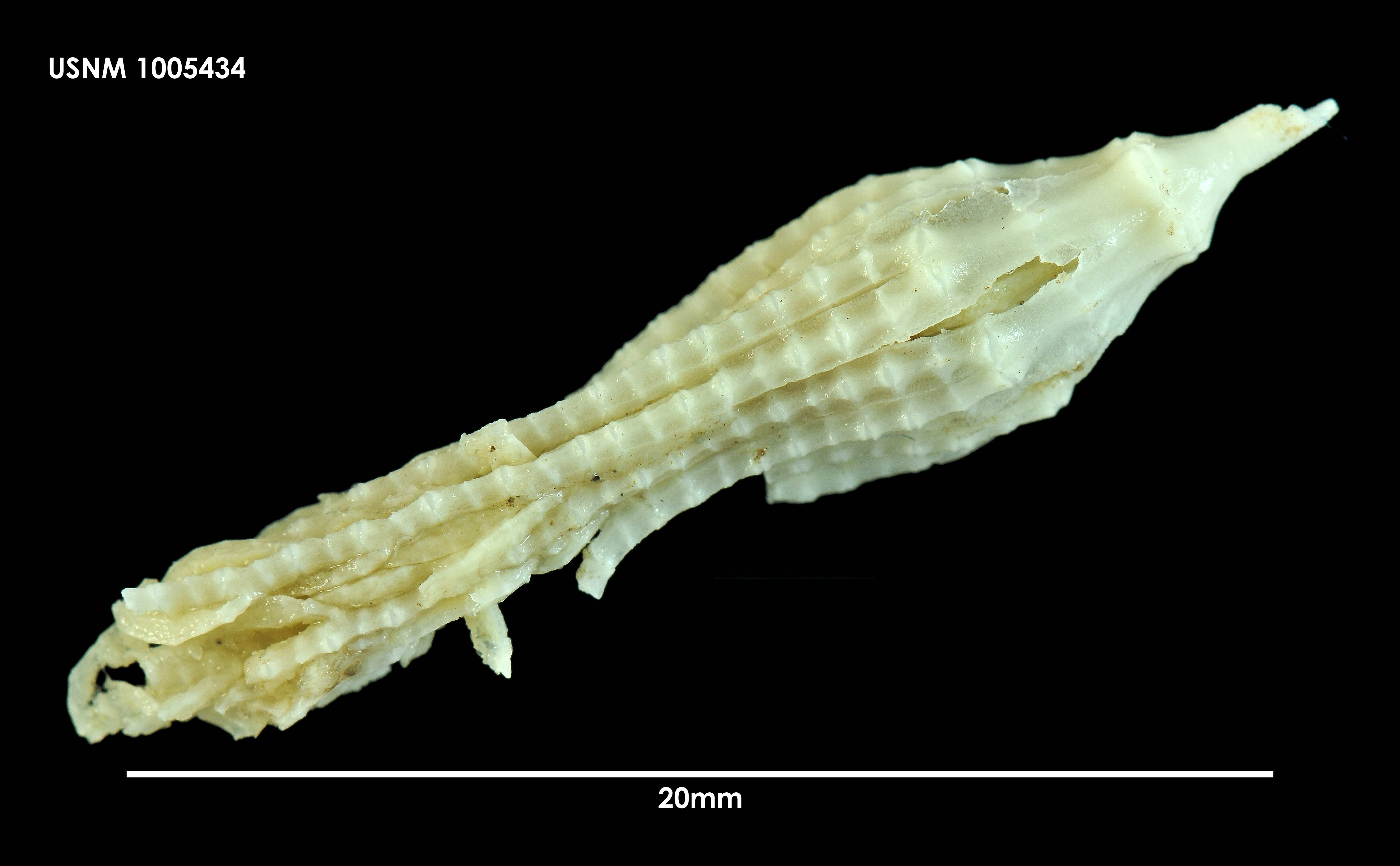 PRESERVED_SPECIMEN; Preparations: Alcohol (Ethanol); Bathycrinus australis A.H.Clark, 1907; Individual count: 3; Type status: (no data); Identified by: Oji, Tatsuo, University Of Tokyo; Event date: 19660127T00:00:00Z; Additional description: Wet specimen.